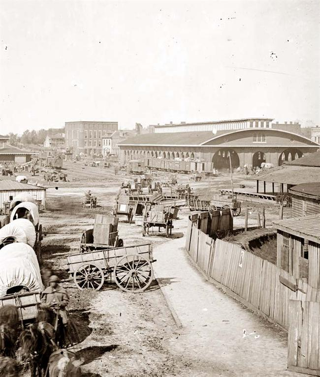 State Square and Union Depot, Atlanta before 1865